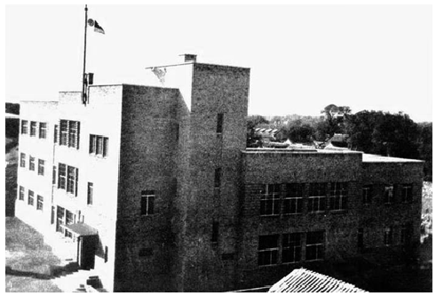 Geology Building, Peking University